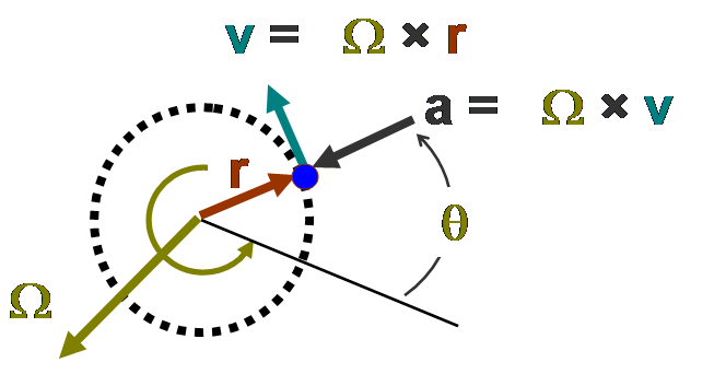 vector relationships for circular motion